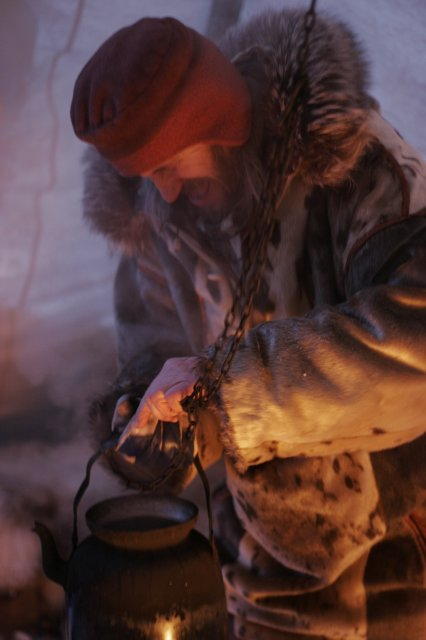 Original caption: Coffee made by our dogsled driver in a modern take on a Sami teepee. Taken in/near Jukkasjärvi?